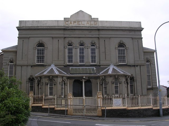 Capel Als, Marble Hall Road, Llanelli. Capel Als, Marble Hall Road. Off to the left in the photograph is Wern Street, whilst Als Street runs to the right of the building.